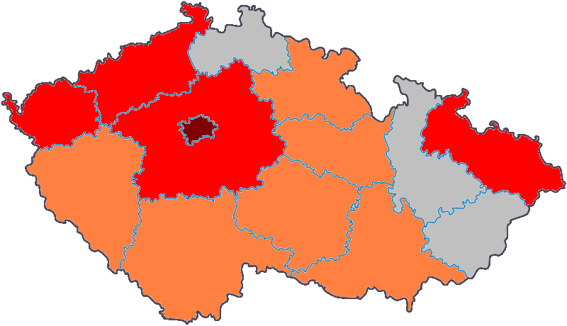 Swine flu in Czechia